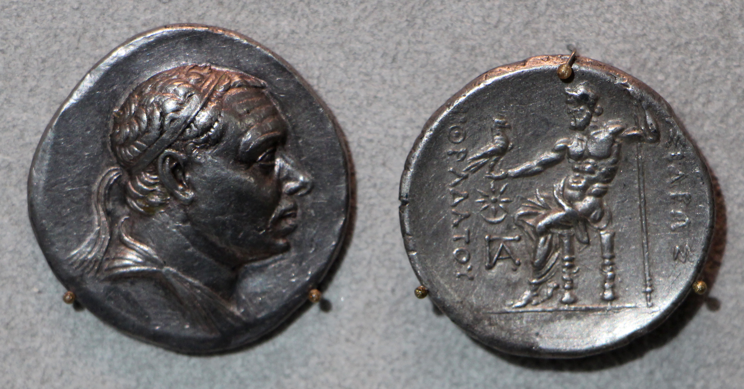 Ancient Greek coins in the Altes Museum Berlin